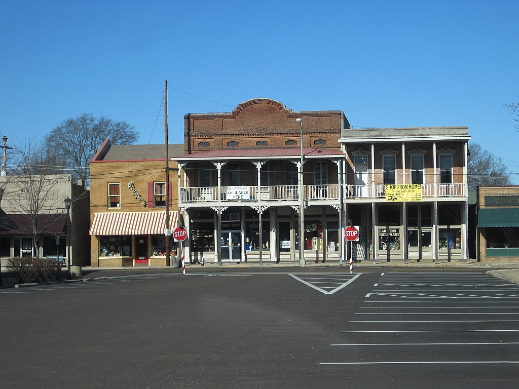 Somerville, Tennessee Downtown